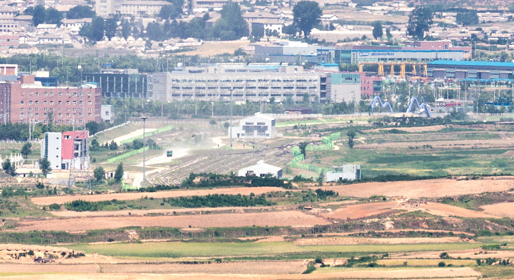 View of the railway yard of Panmun Station at the Kaesong Industrial Complex